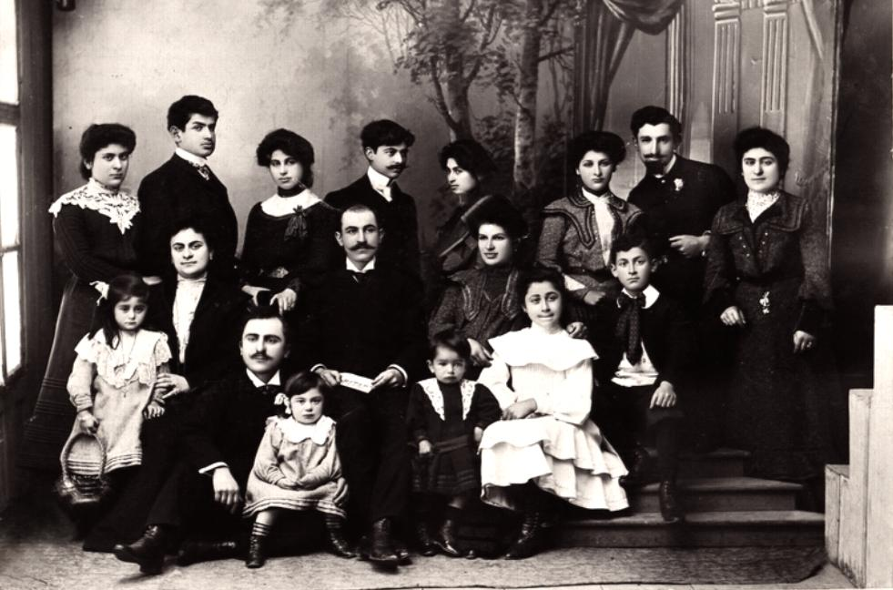 Pontian Greek family of Kakoulidis.